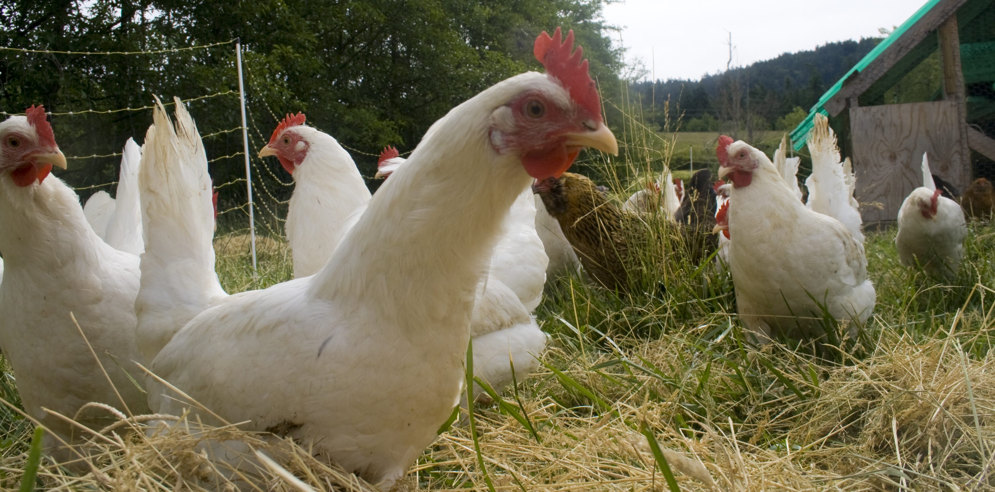 Free range hens, near their coop and surrounded by electrified poultry netting.